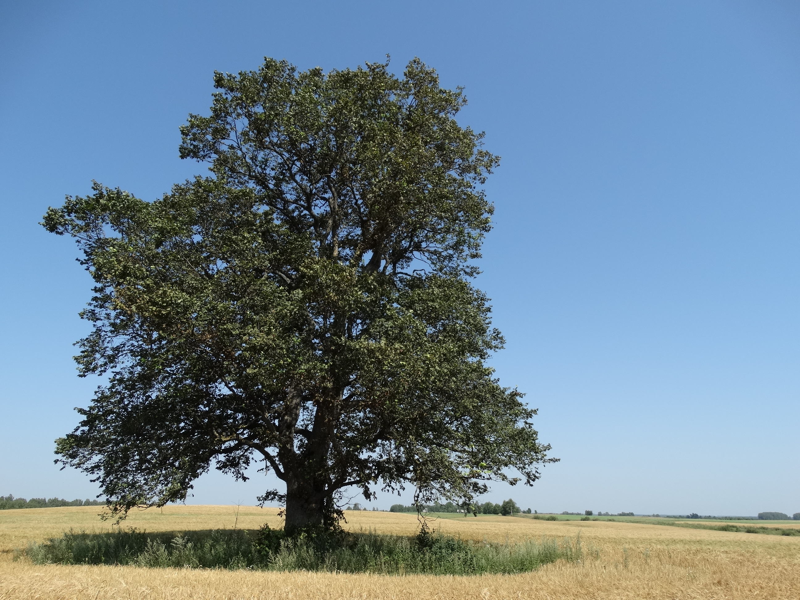 Ulmus glabra tree in Mataučizna, Rokiškis District, Lithuania